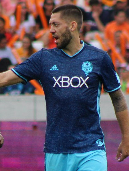 Clint Dempsey and DaMarcus Beasley